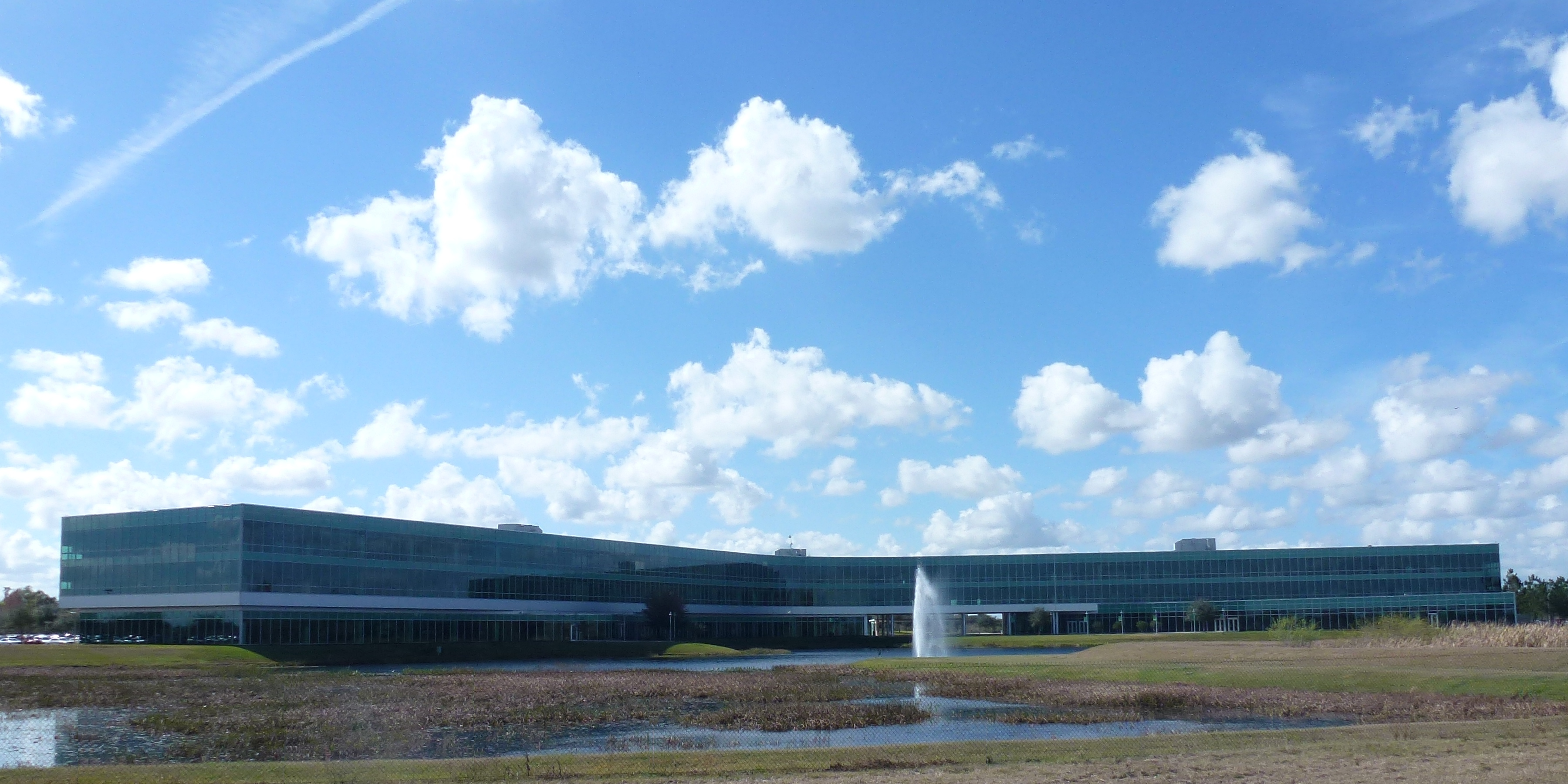 Publix corporate headquarters, Lakeland, Florida